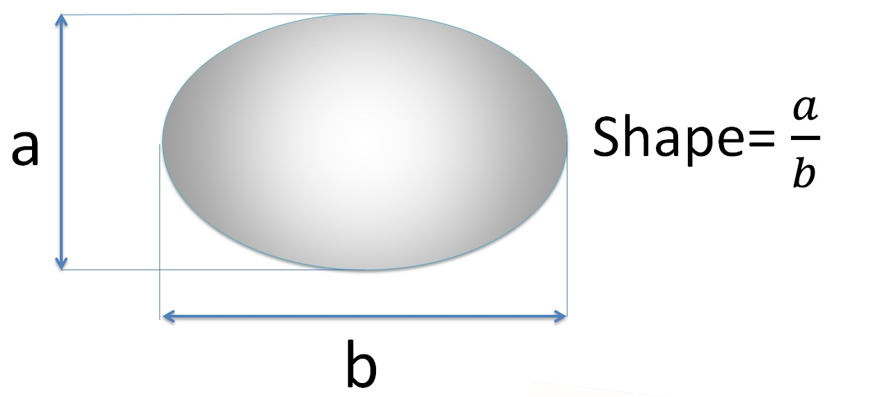 shape factor for yarn